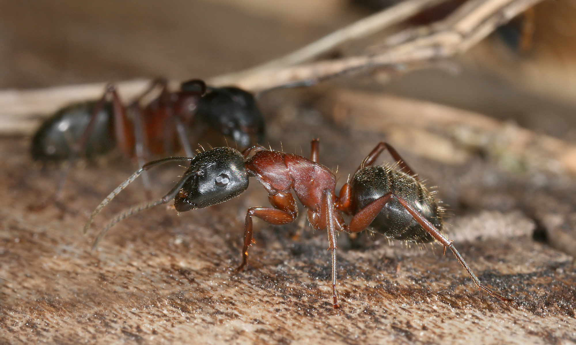 Description: This image shows a Carpenter ant (Camponotus ligniperda).Carpenter ants are large ants (¼ in–1 in) indigenous to large parts of the world. They prefer dead, damp wood in which to build nests. Sometimes carpenter ants will hollow out sections of trees.